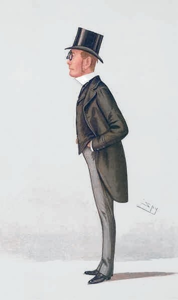 Caricature of John Blair Balfour PC MP. Caption read "the Lord Advocate".